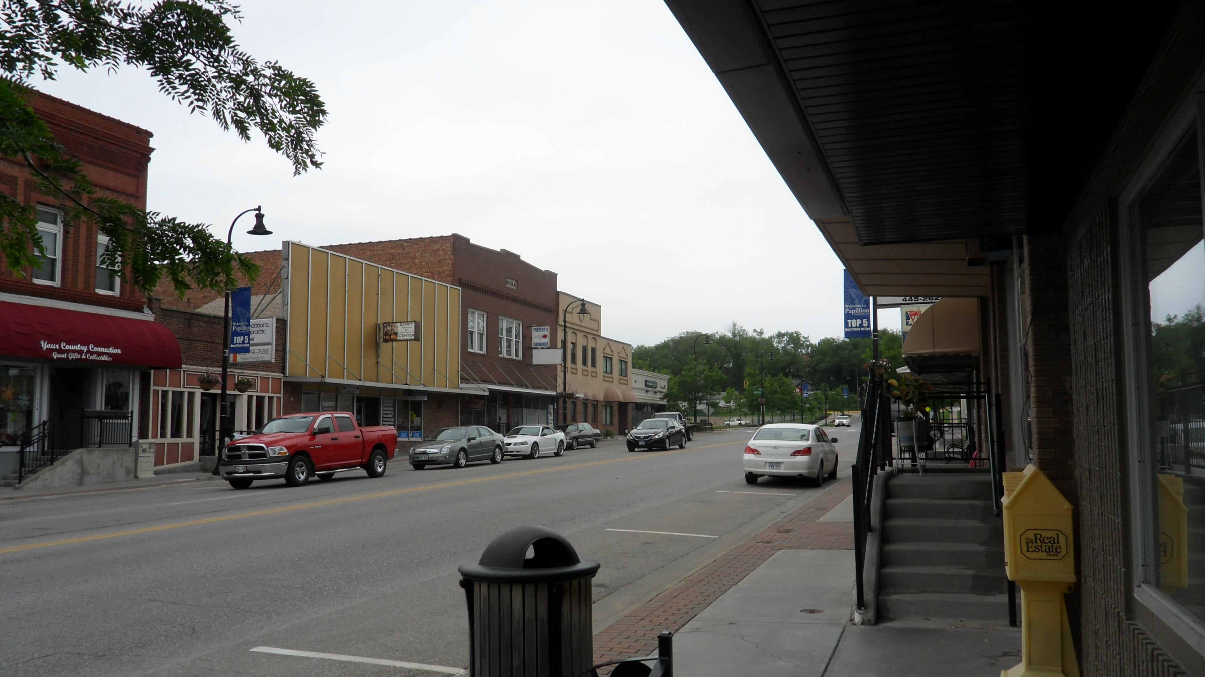 Downtown Papillion, Nebraska along Washington Avenue.